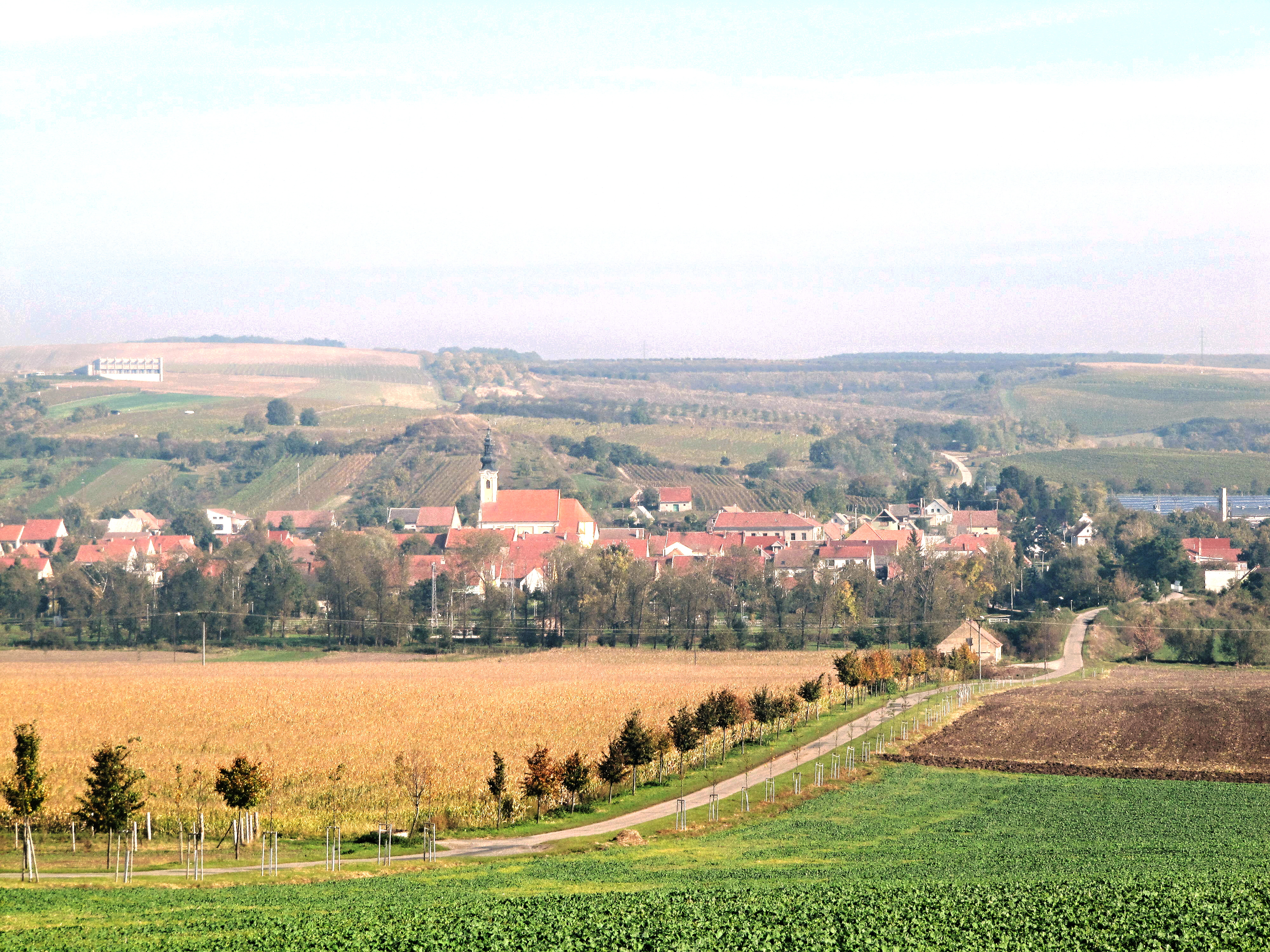 Popice in Břeclav District, Czech Republic.General view.